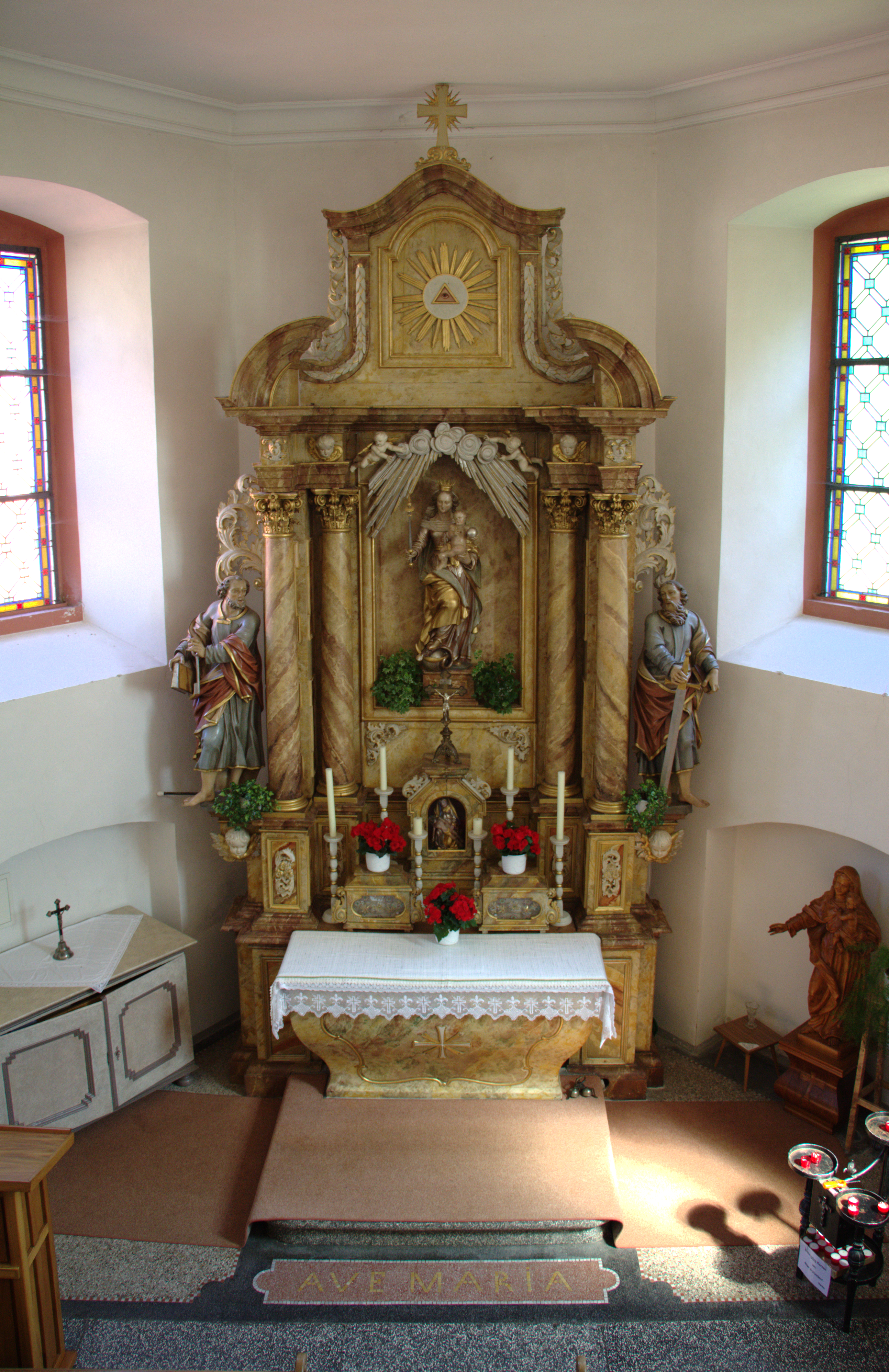 Altar in Chapel (Schlingenkapelle) near Poppenrod, Hosenfeld, Hessen, Germany